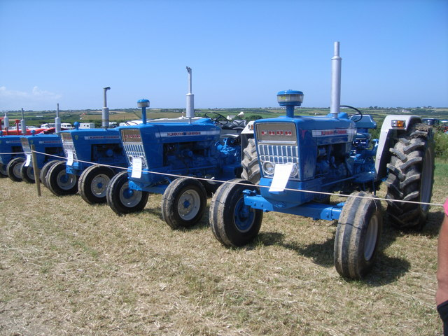 Ford Tractors on display at the Padstow Steam Rally, 2009, near to Little Petherick, Cornwall, Great Britain.